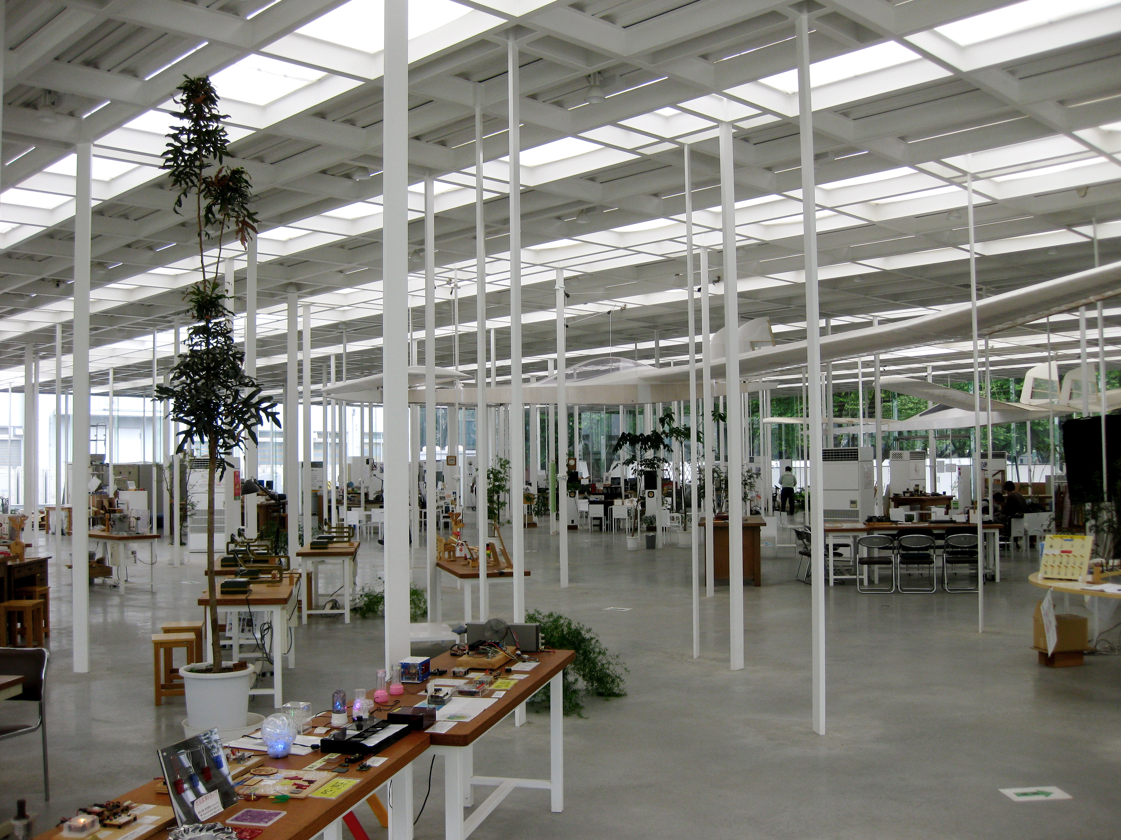 KAIT Workshop by Junya Ishigami, Kanagawa Institute of Technology, Japan